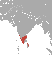 Gray Slender Loris (Loris lydekkerianus) range